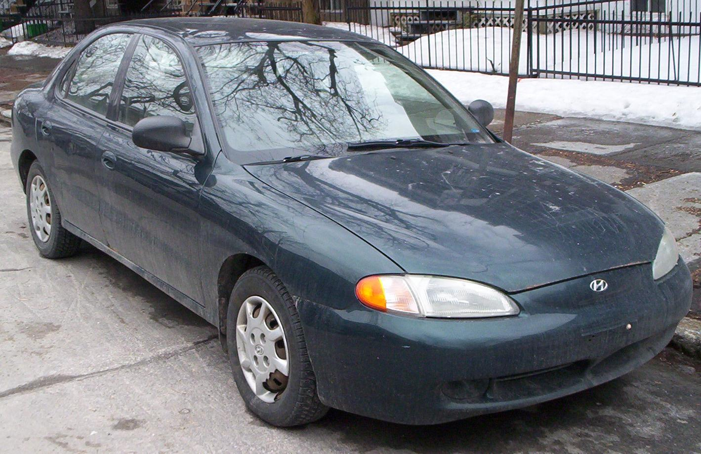 1996-1997 Hyundai Elantra photographed in Montreal, Quebec, Canada.